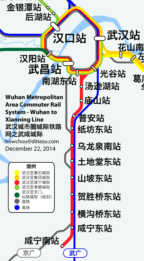 A map for Wuxian railway